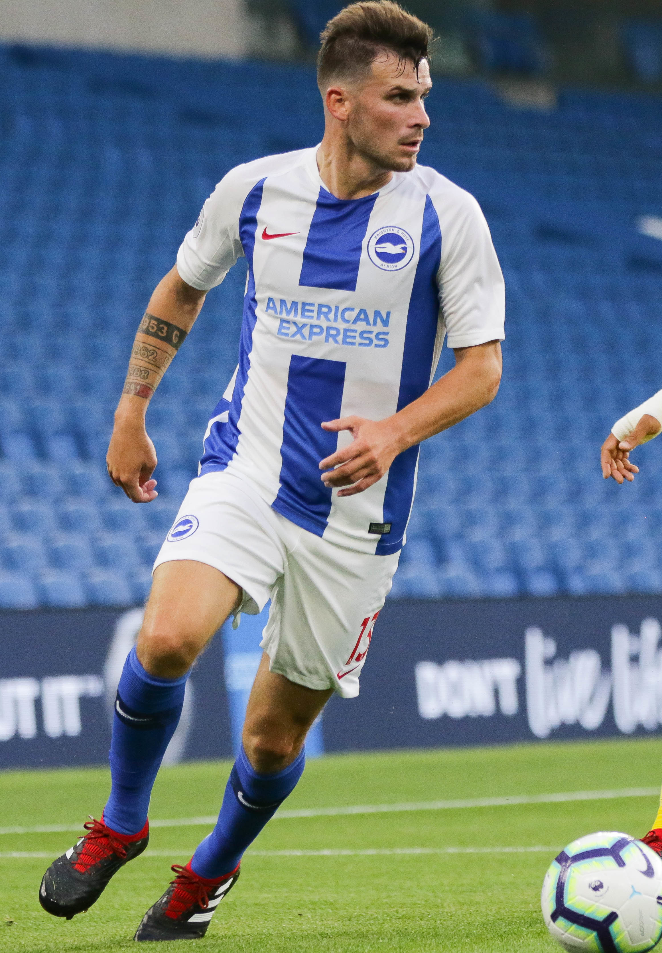 BHA v FC Nantes pre season 03 08 2018-486.jpg